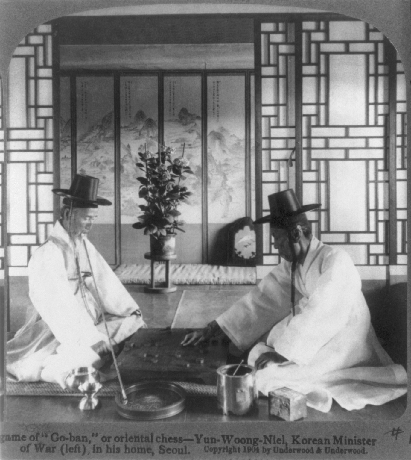 A game of "Go-ban," or oriental chess - Yun-Woong-Niel, Korean Minister of War (left) in his home, Seoul -- this is half of a stereoscope image. Caption card tracings: Korea--Seoul; Ph. Ind.; Games. REPRODUCTION NUMBER: LC-USZ62-72567 (b&w film copy neg. of half stereo) No known restrictions on publication. CARD #: 2003665585